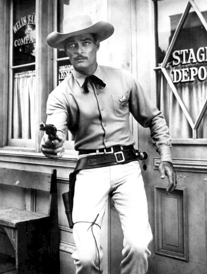 Photo of John Russell as Dan Troop from the television program Lawman.